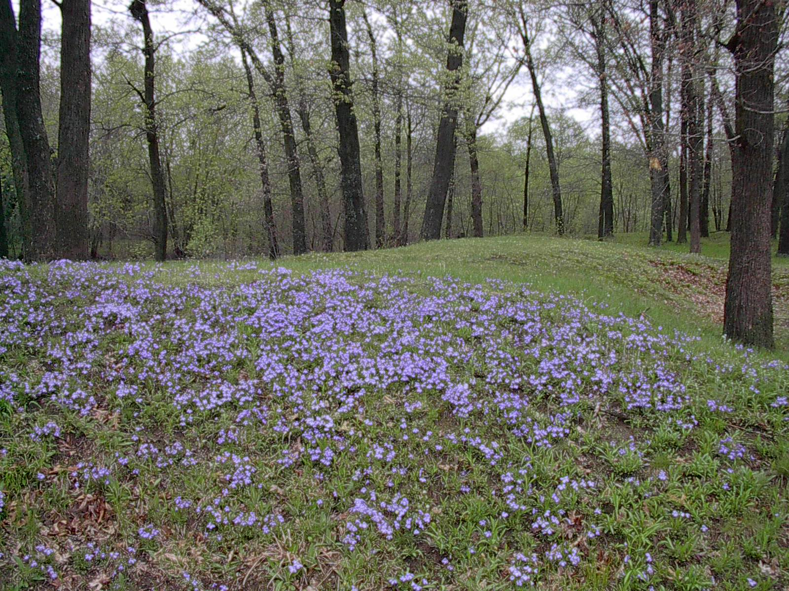 Picture of the "Gees Slough" Effigy Mound of New Lisbon, WI. This form is reportedly the Water Panther